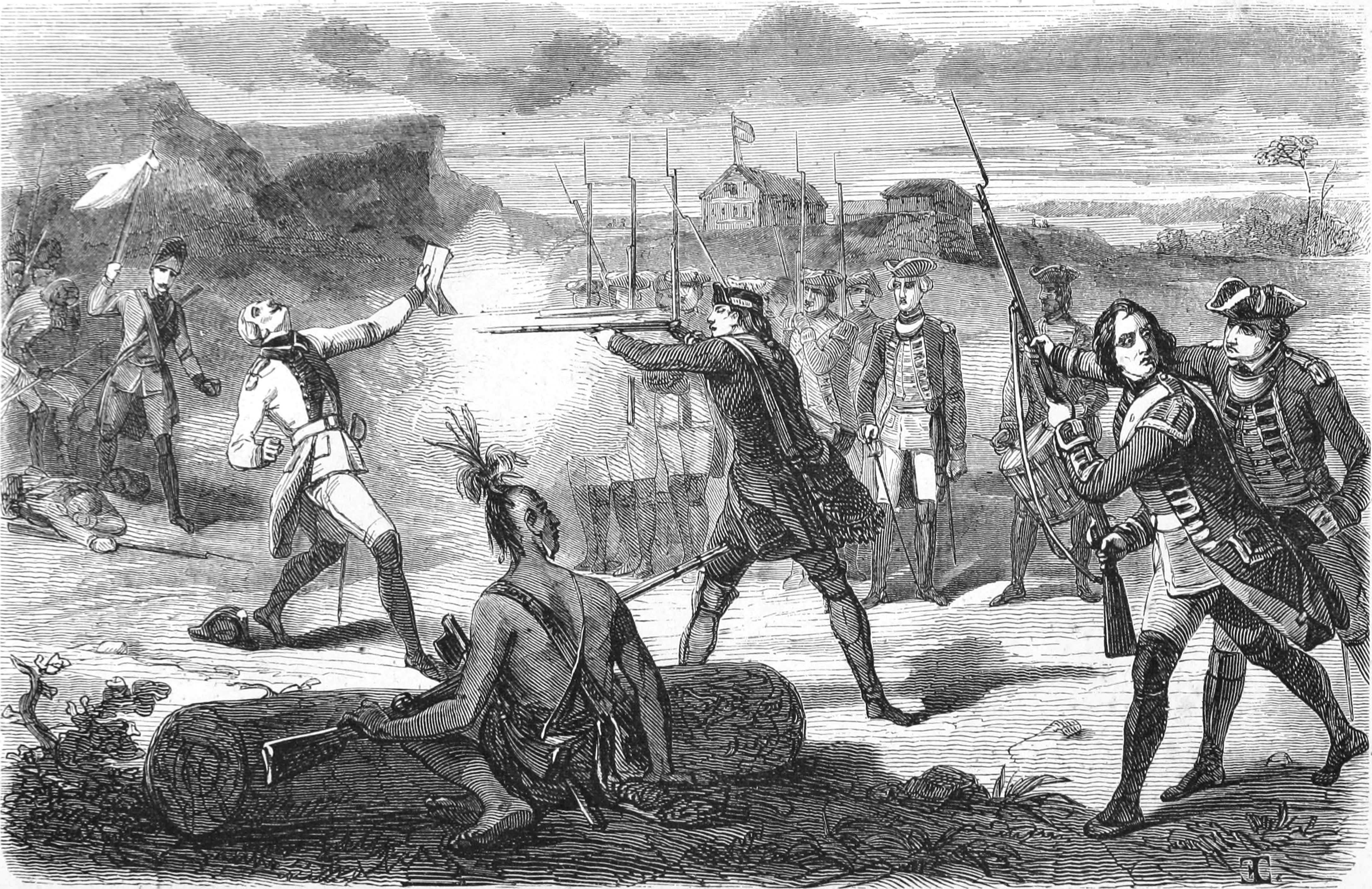 In this artist's version of the incident at Jumonville Glen, the English under the command of George Washington are depicted as murdering the defenseless French commander Jumonville in cold blood. Contemporary accounts of the incident are contradictory; it is more likely that Jumonville was in fact tomahawked by the Indian leader Tanaghrisson while Washington watched without intervening.